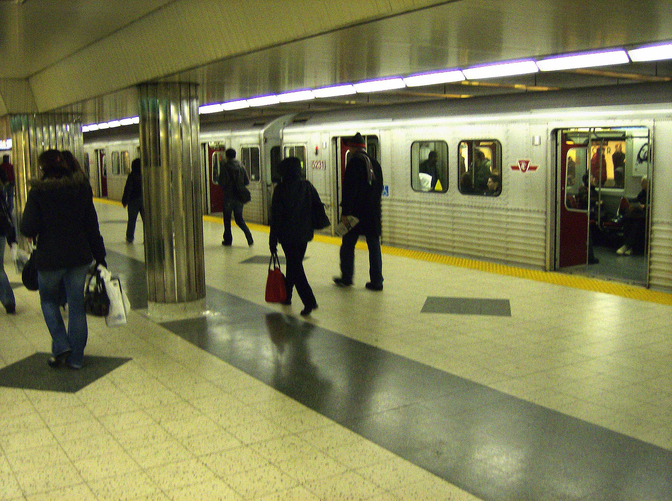 Bloor-Yonge subway station in Toronto, Canada